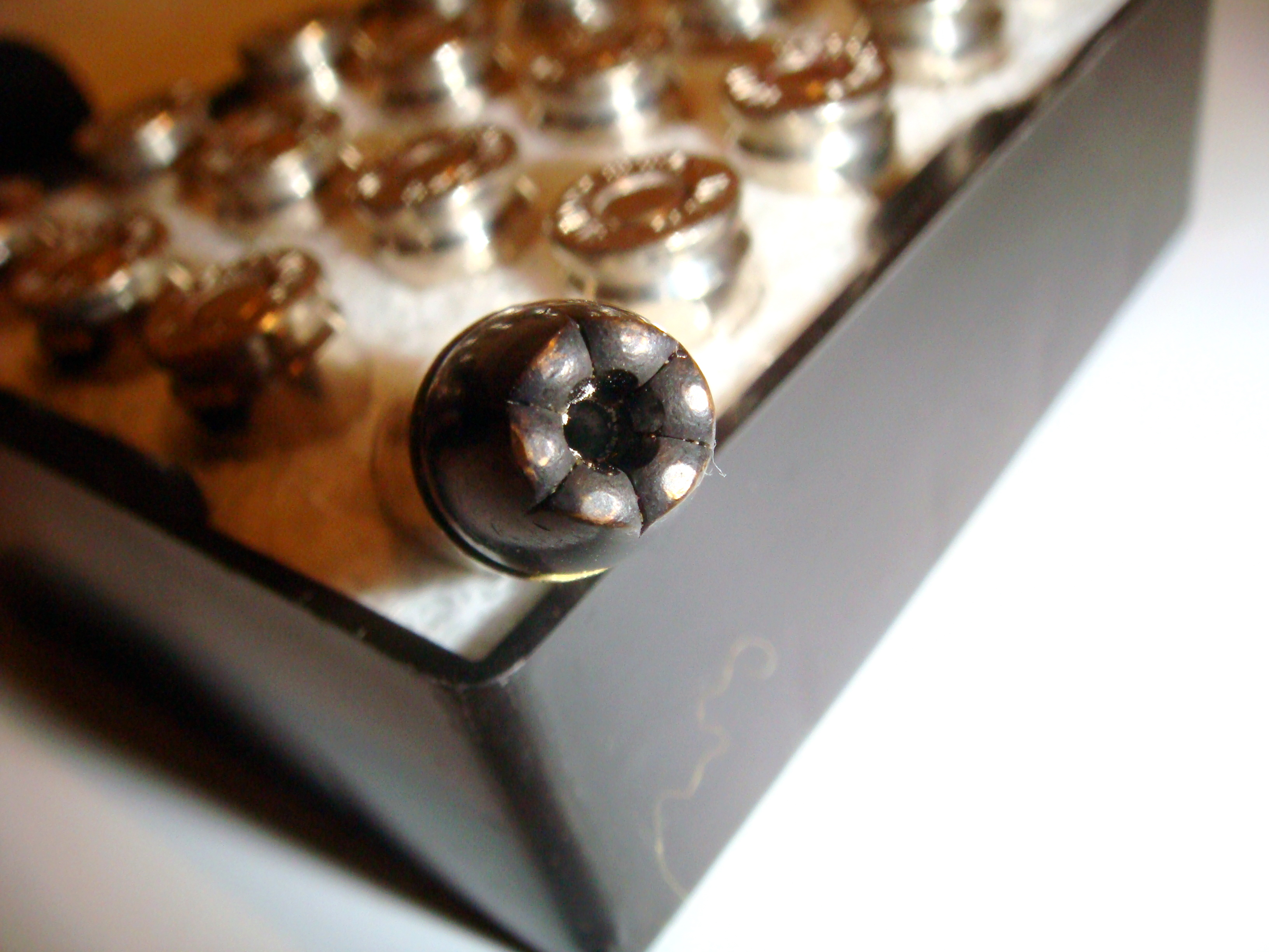 Hollow point detail view of one round of Winchester Black Talon™ ammunition (9mm Luger), upturned and resting upon corner of black plastic 20-round box-tray with foam insert from which it was removed; bottoms of fifteen (15) other rounds of the same Deep Penetrator DP™ ammo are visible.